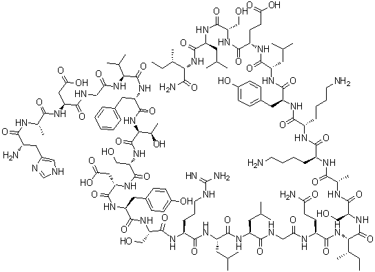 Molecular Formula C136H216N36O41 Molecular Weight 3011.39 CAS Registry Number 96849-38-6